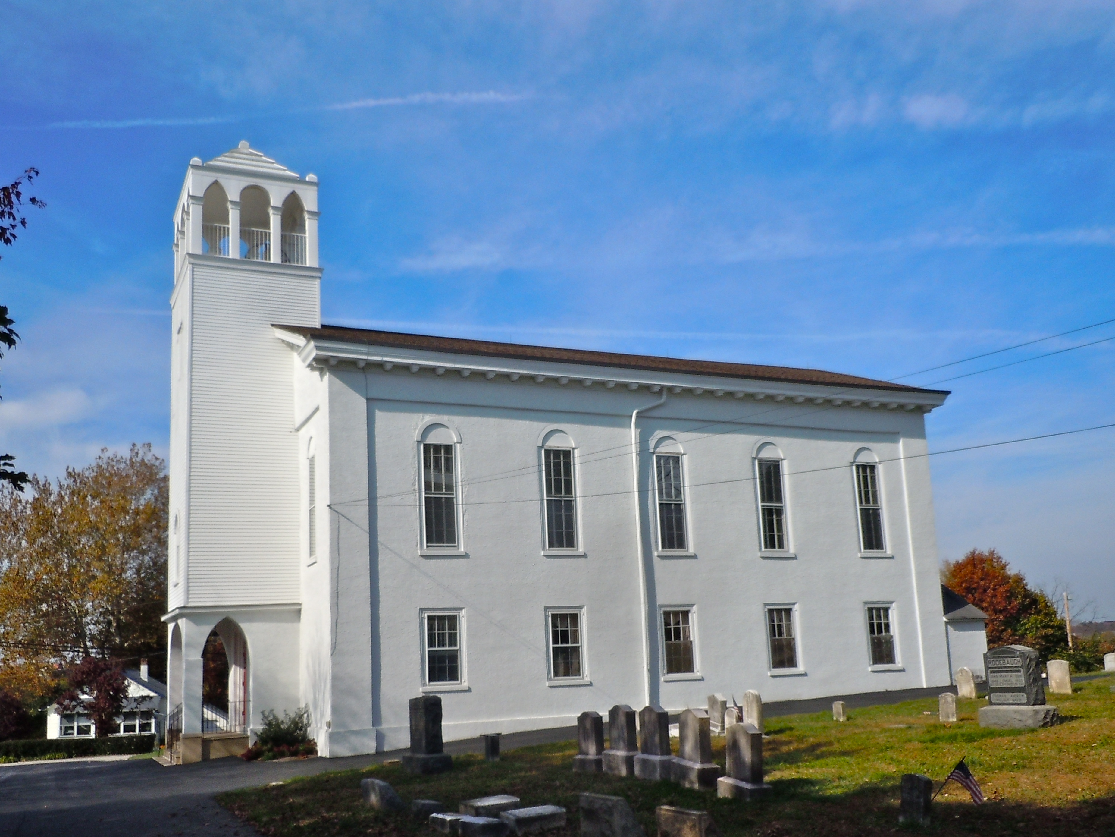 Cold Point Baptist Church, between Cold Point Hill Road and Militia Hill Road, Plymouth Meeting, Pennsylvania. Part of the Cold Point Historic District on the NRHP since September 9, 1983. The HD is roughly bounded by Interstate 276, Butler Pike, Militia Hill and Narcissa Roads.